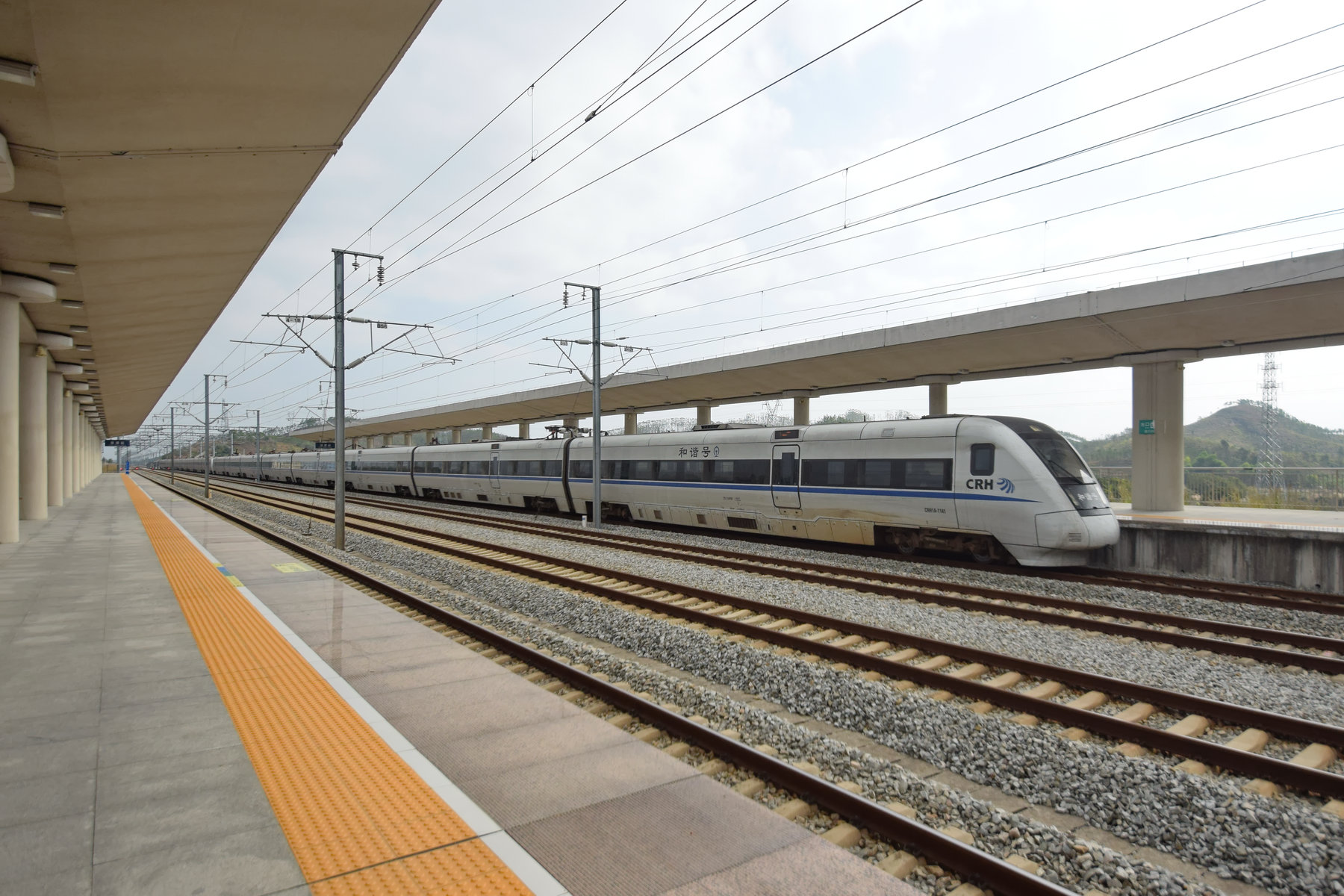 CRH1A-1141 EMU, served by China Railway Guangzhou Group, was entering Platform 2 of Kuitan Railway Station, as D689.